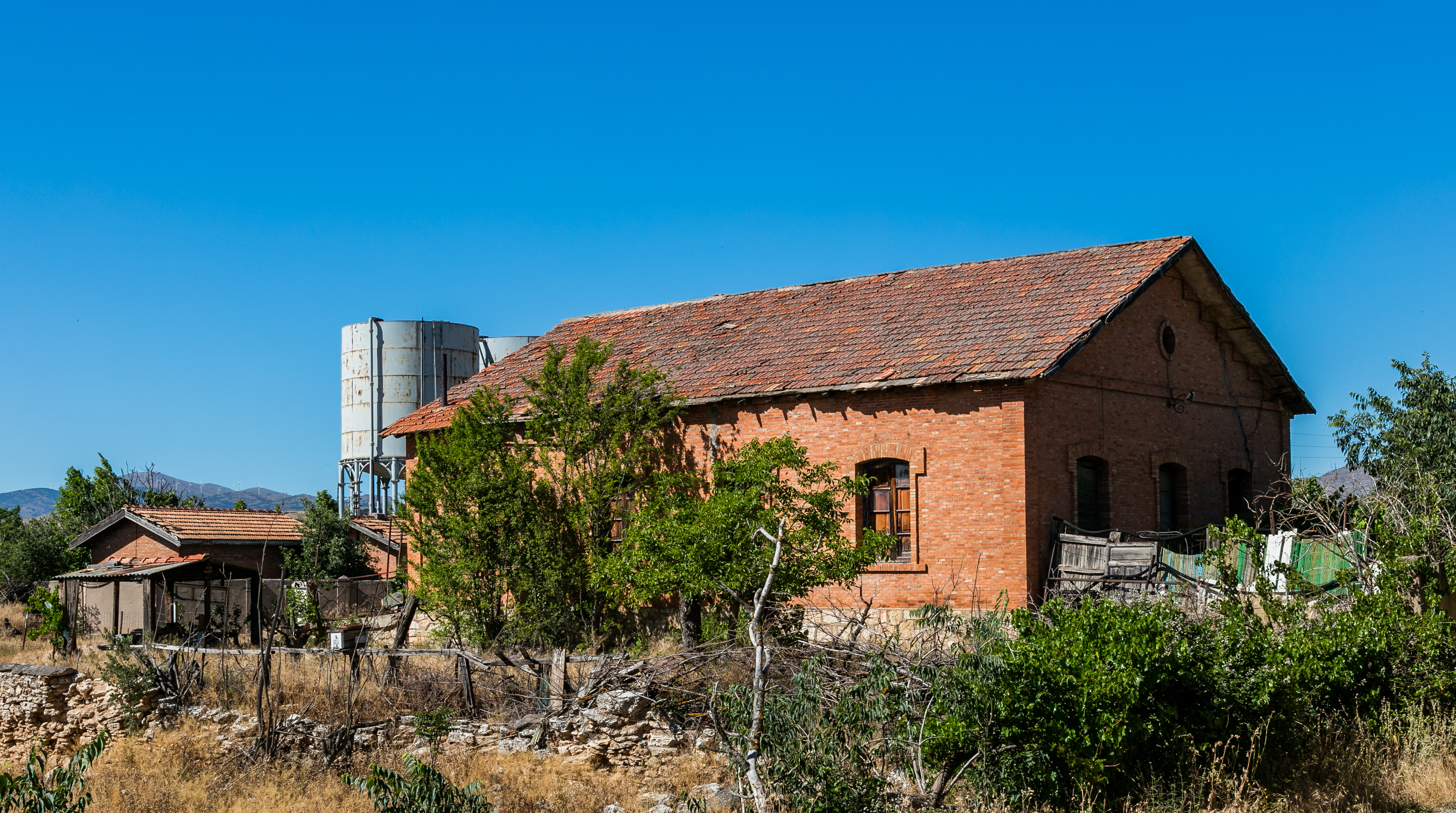 Old railway station, Calatayud, Spain